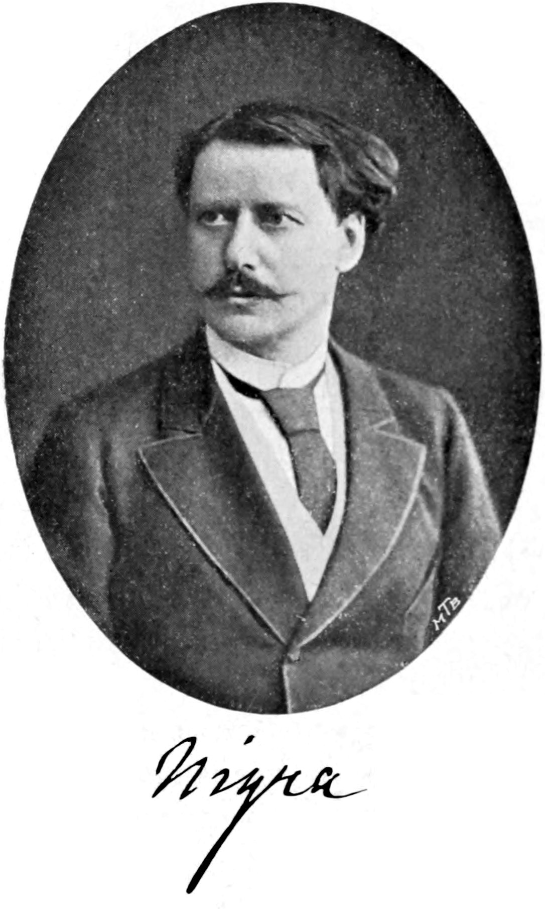 Image from book: Patria Esercito Re, Ulrico Hoepli, Milan, 1908.